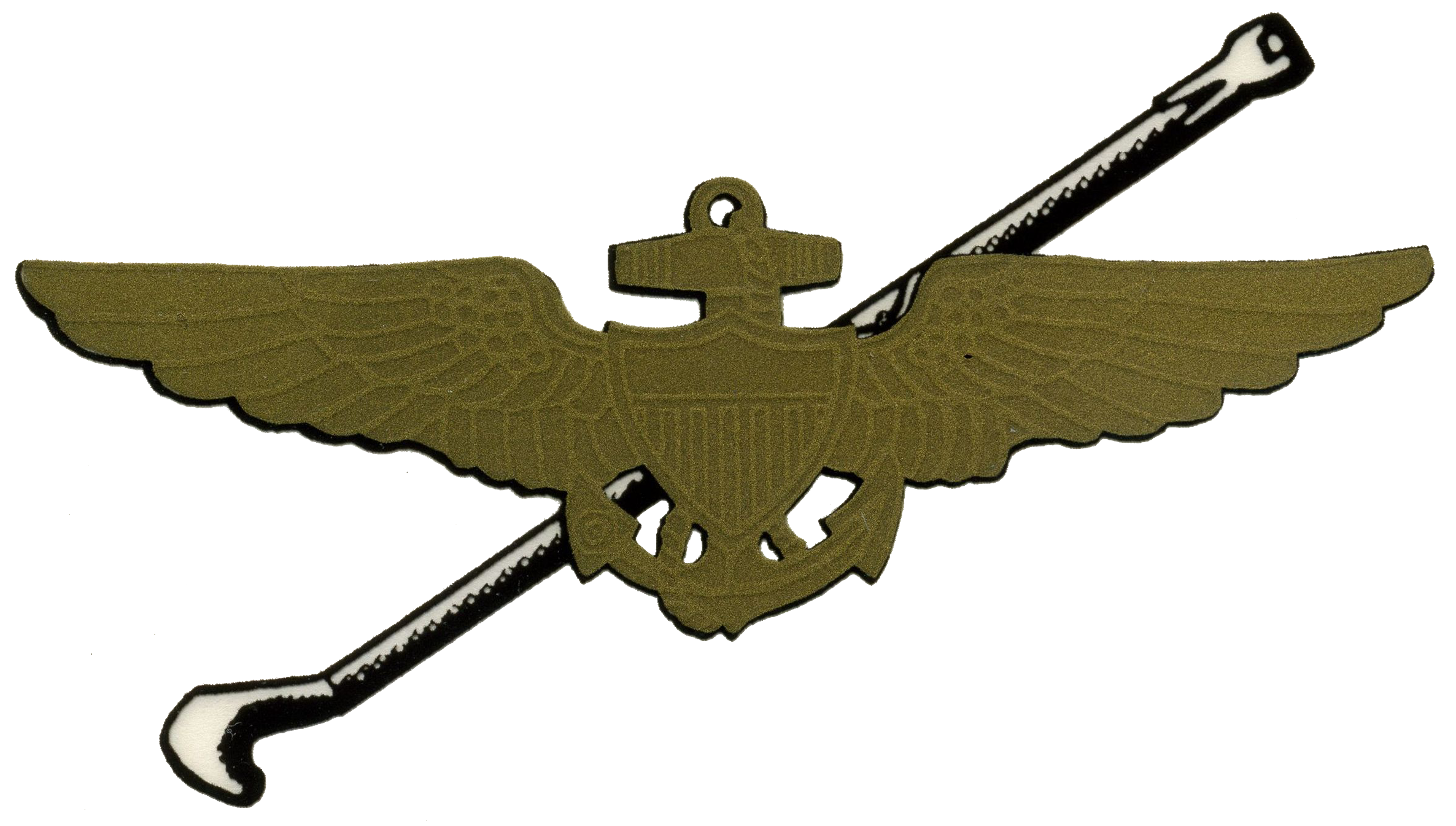 Sticker on a car glass with a Tail Hook Association symbolic